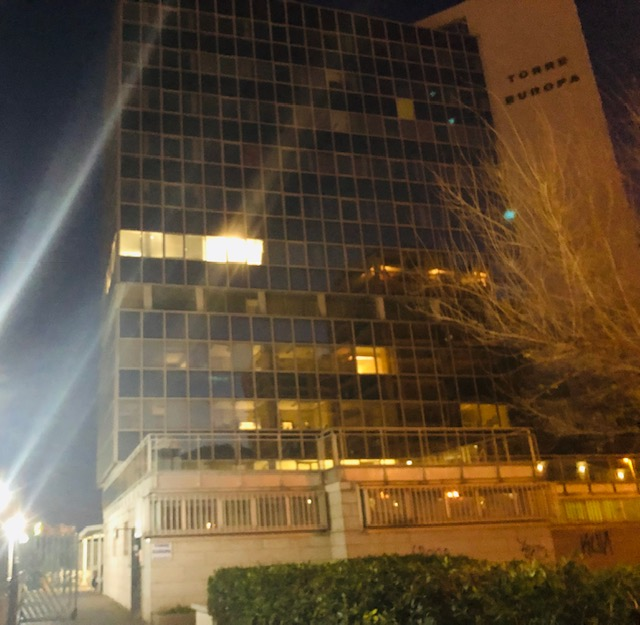 hdctrgb